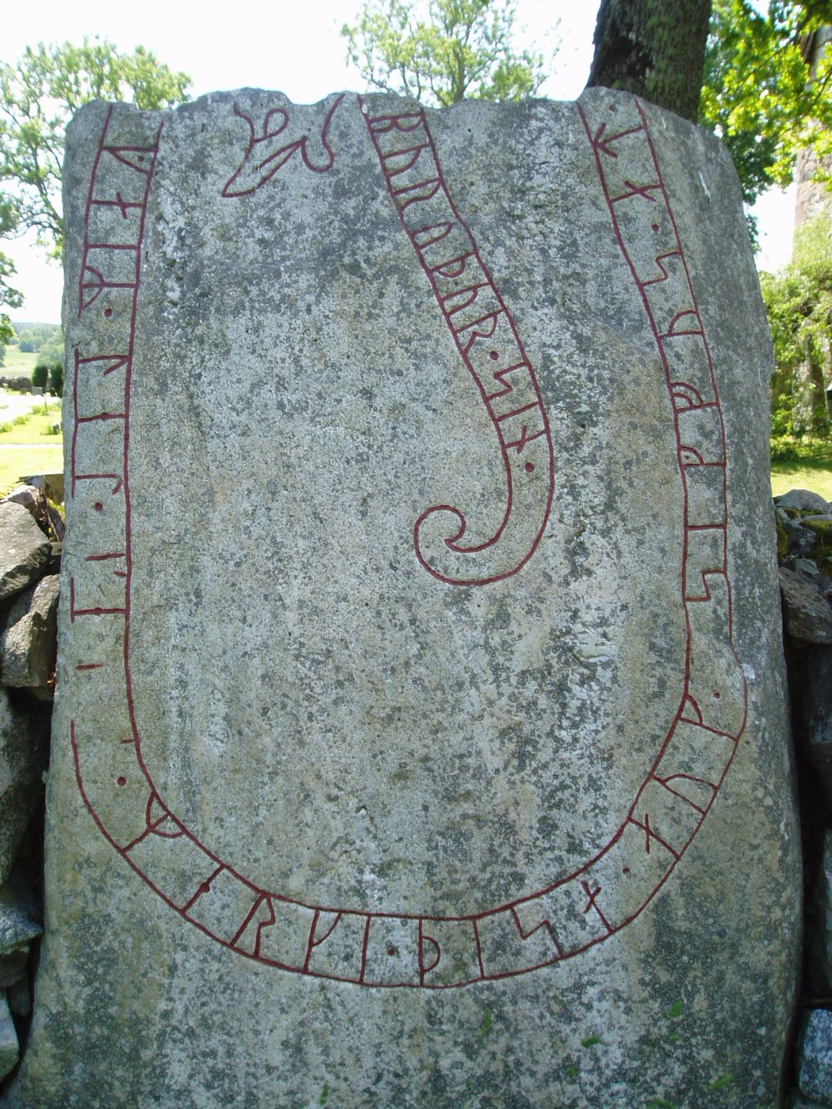 Runestone, U 655, at Håtuna church, Sweden (with red collor)